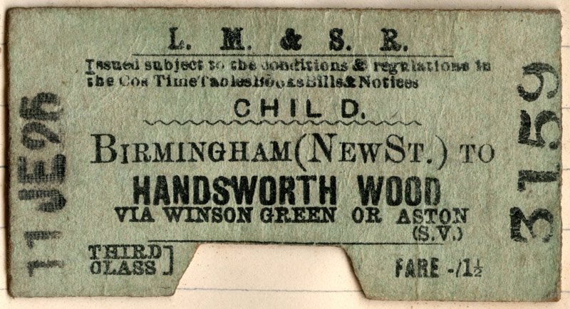 Birmingham to Handsworth Wood third class child railway ticket, valid via Winson Green or Aston. Issued in 11 June 1925. Wingate Bett Transport Ticket Collection Vol.86 - 114